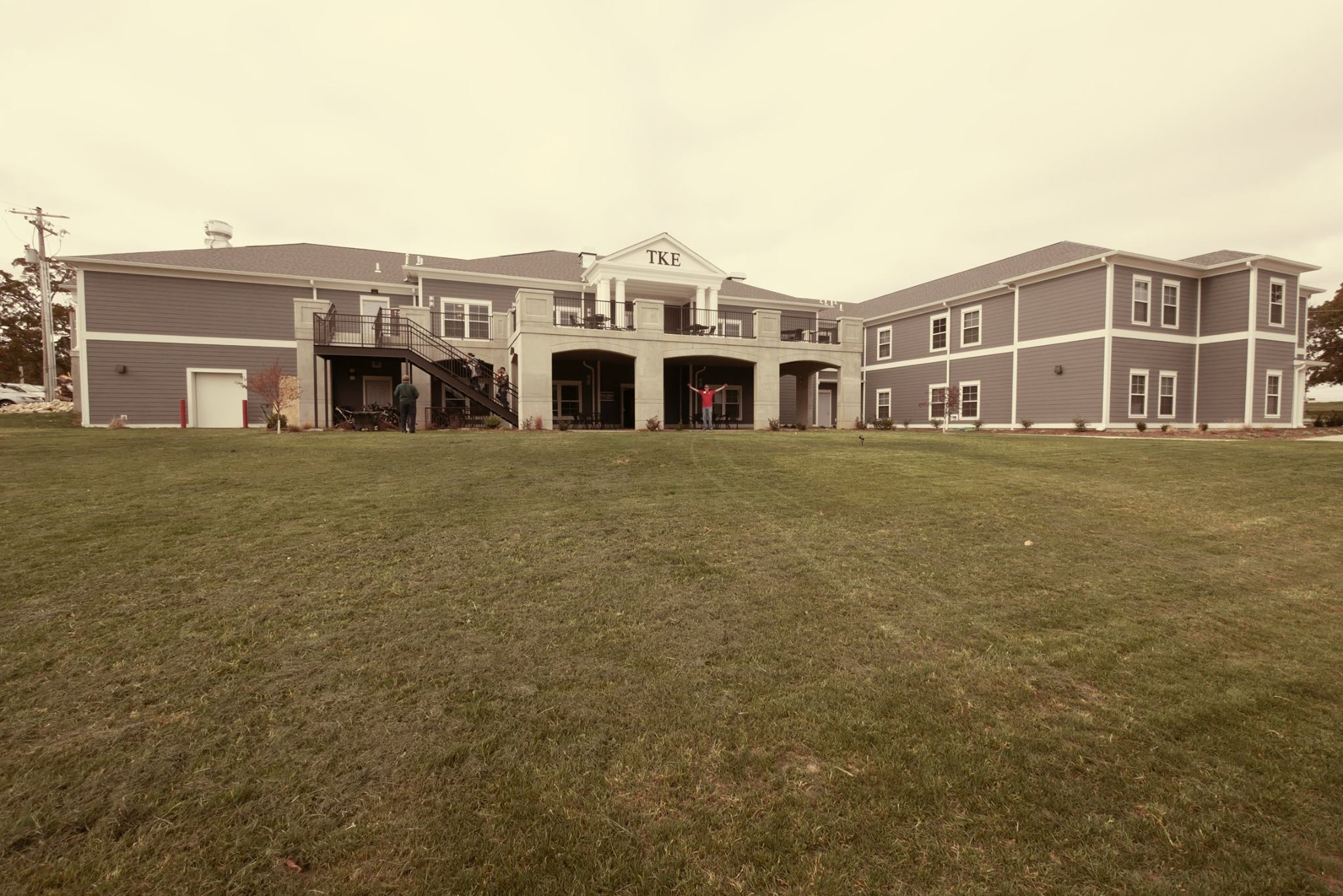 This is a picture of the back of the Tau Kappa Epsilon Fraternity house at Missouri University of Science & Technology.